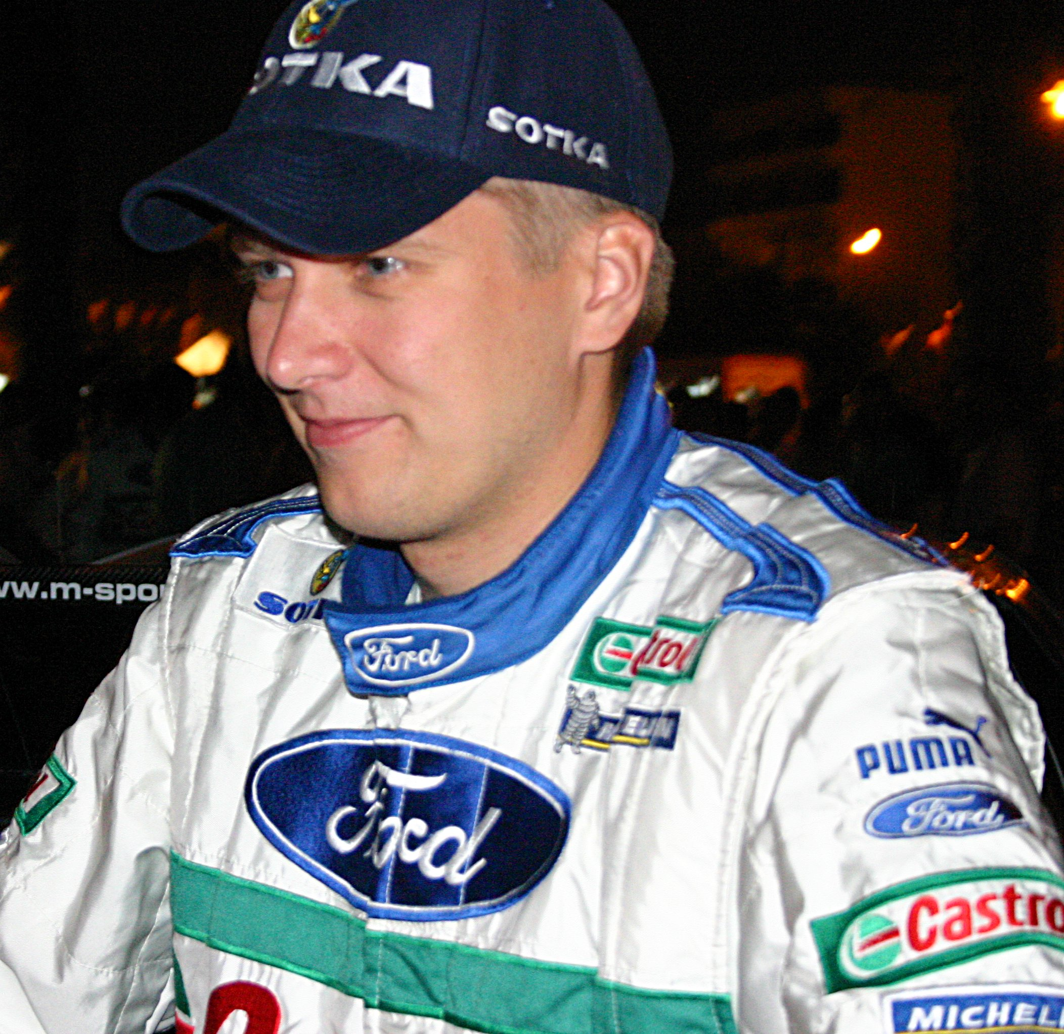 Toni Gardemeister at the 2005 Cyprus Rally.